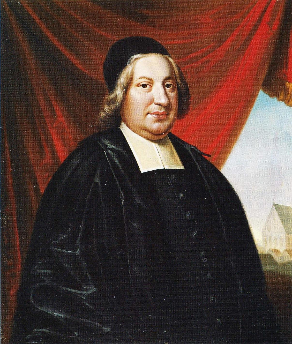 Johannes Gezelius the Youngest (1686–1733), bishop of Borgå. Original portrait, made by Johan Henrik Scheffel in the 18th century, is now kept in the Gripsholm castle in Sweden. This copy was made in 1839 by Johan Erik Lindh at the order of Helsinki University, which still owns it today.